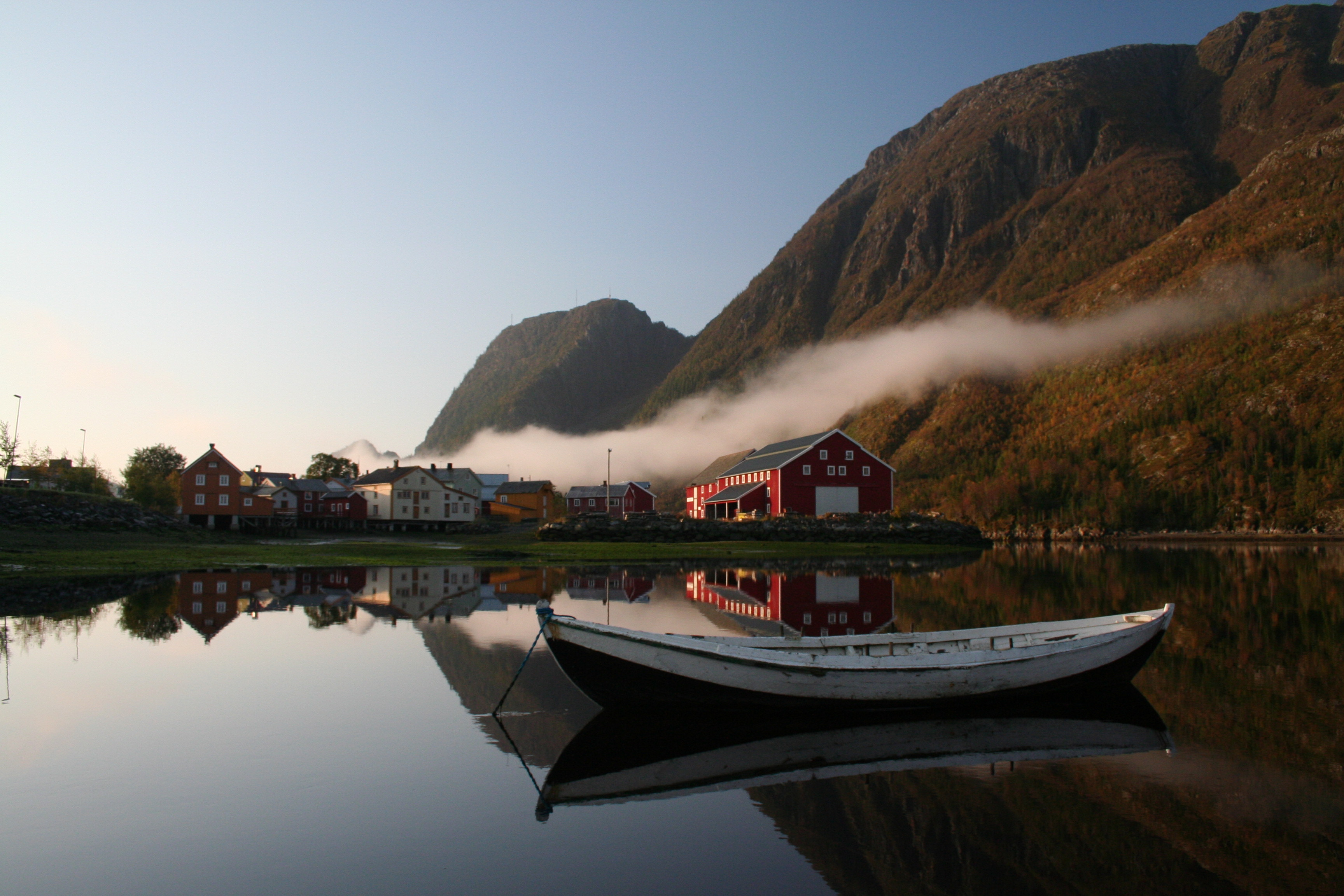 Sunrise in Mosjoen